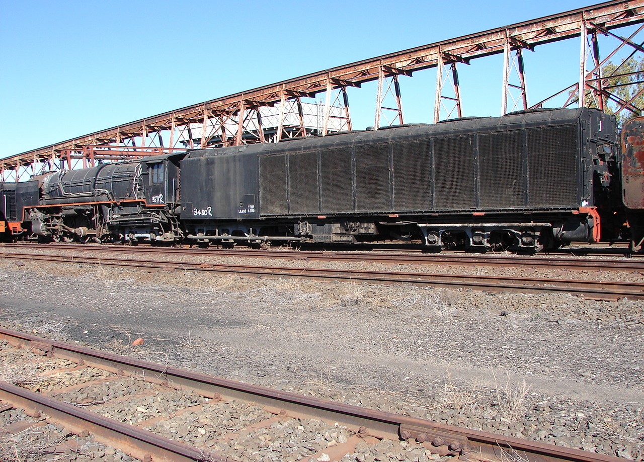 SAR Class 25 3511 (4-8-4) Builder's Number: NBL 27371 Type: Condensing Location: Beaconsfield, Kimberley, Northern Cape